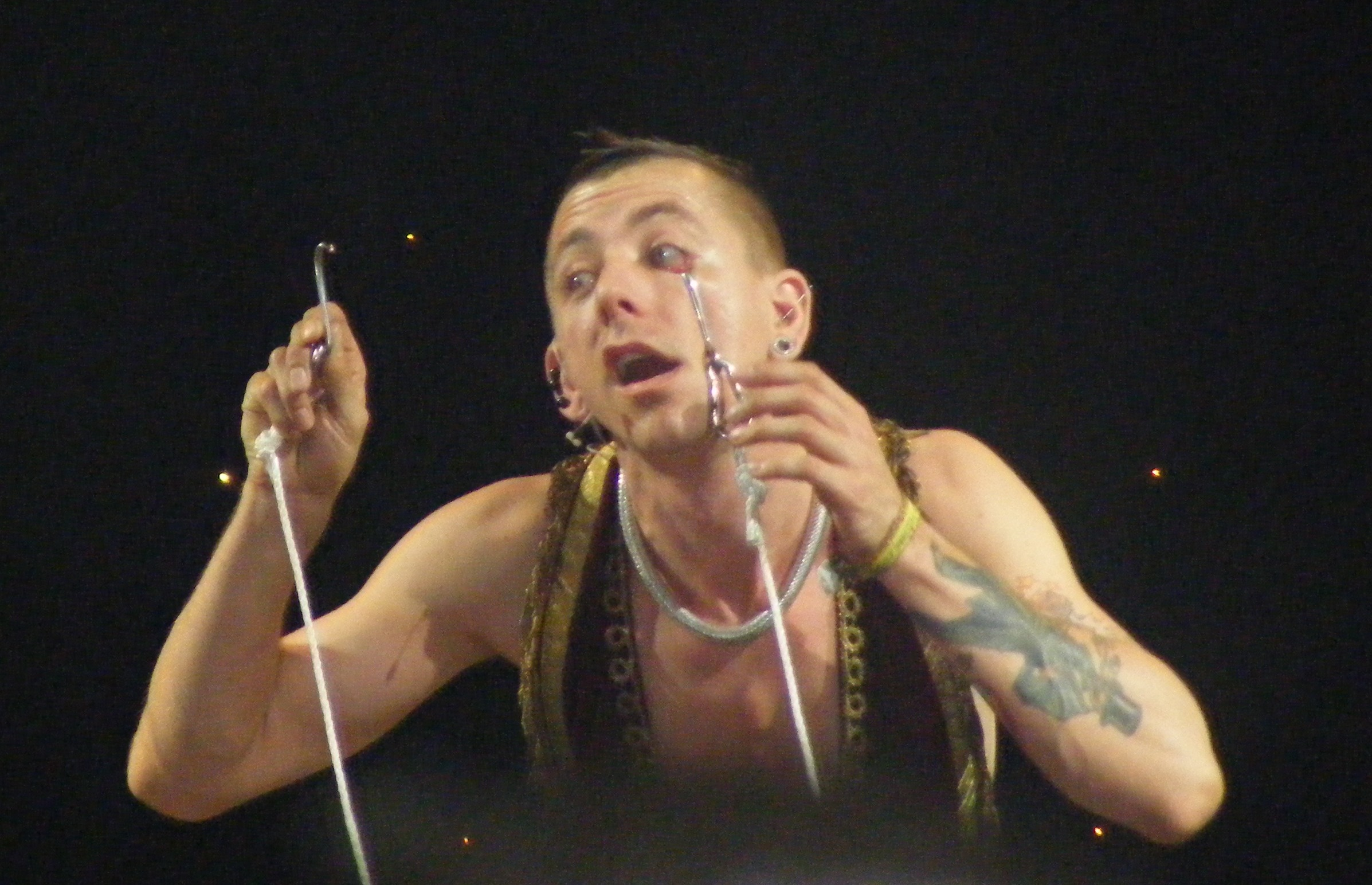 Space Cowboy inserting fish hooks into his eye sockets